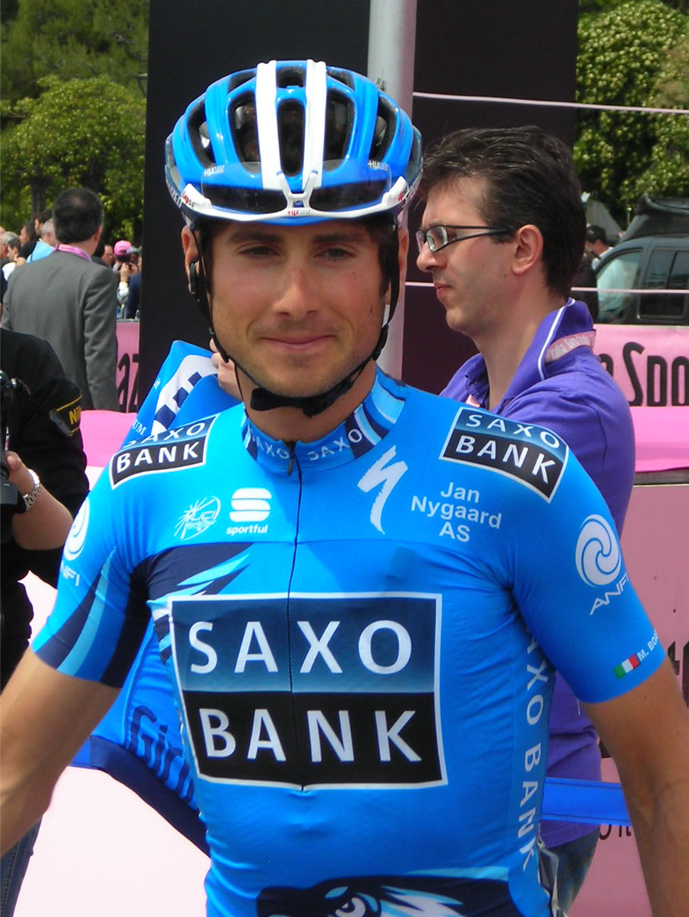 Manuele Boaro in Savona, start of the 13th stage of 2012 Giro d'Italia